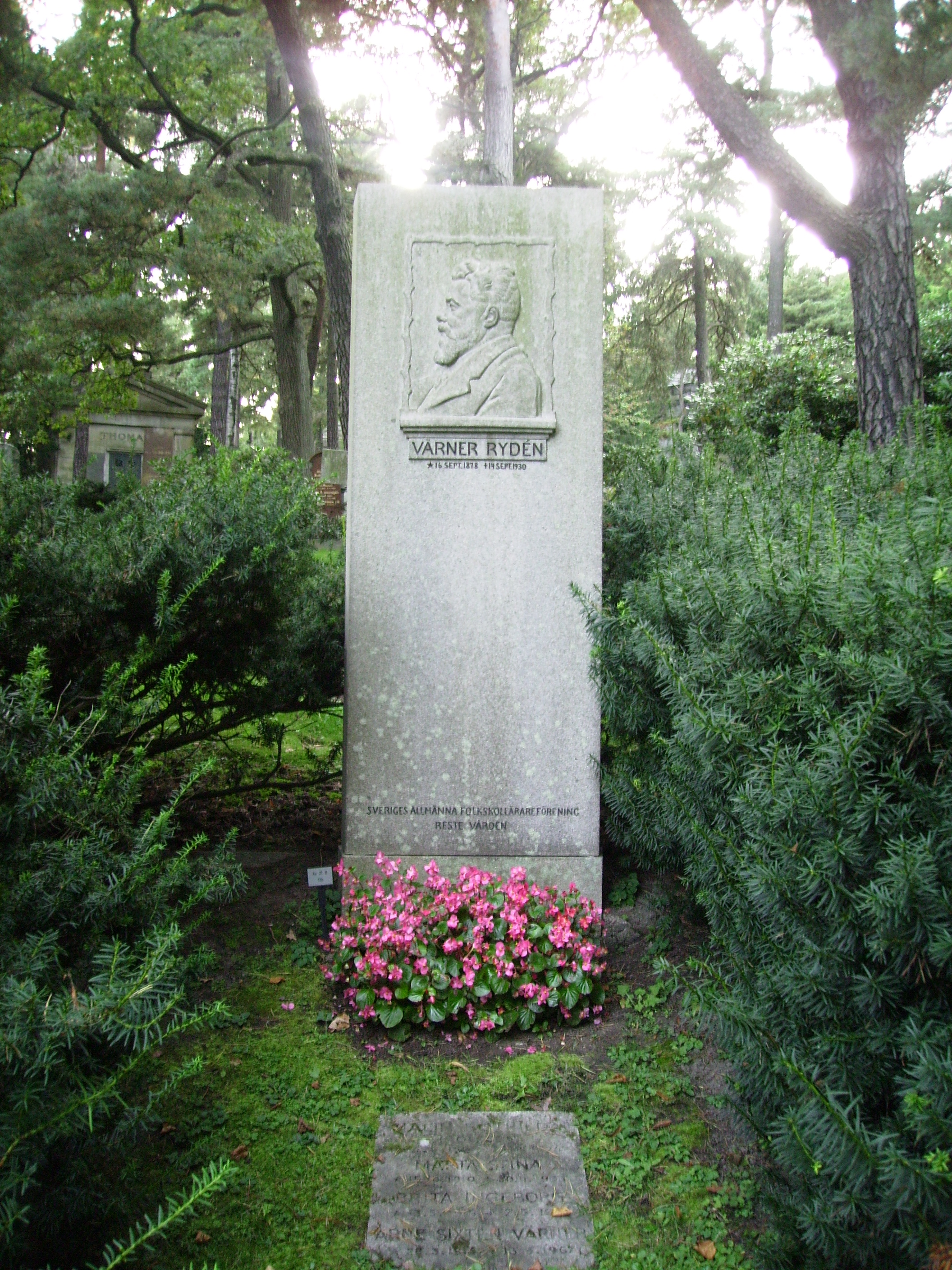 Picture of Värner Rydén's grave at Norra begravningsplatsen in Stockholm